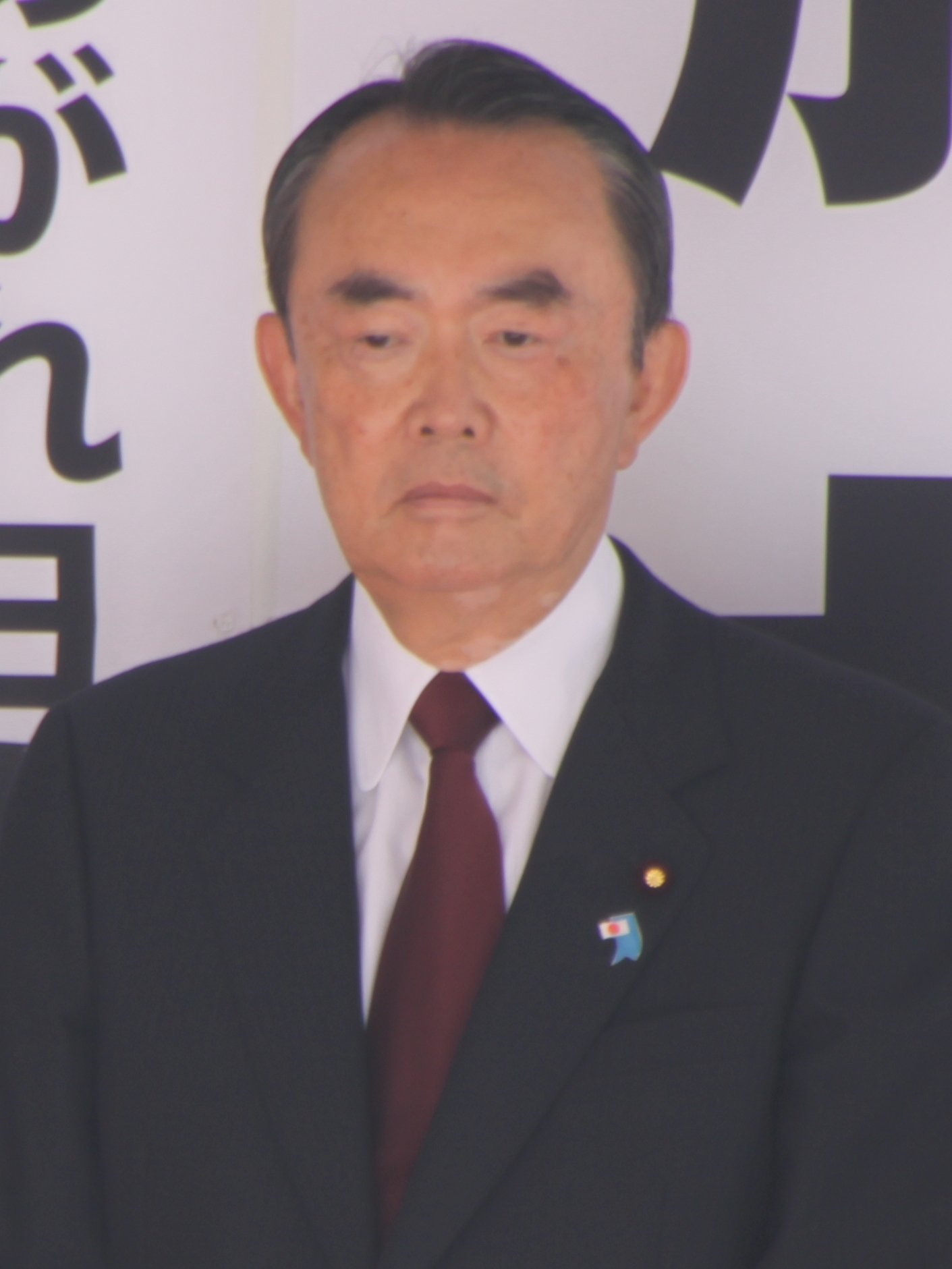 Takeo Hiranuma, Japanese politician 衆議院議員、平沼赳夫